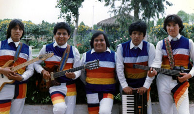 Embajadores de la Chicha.